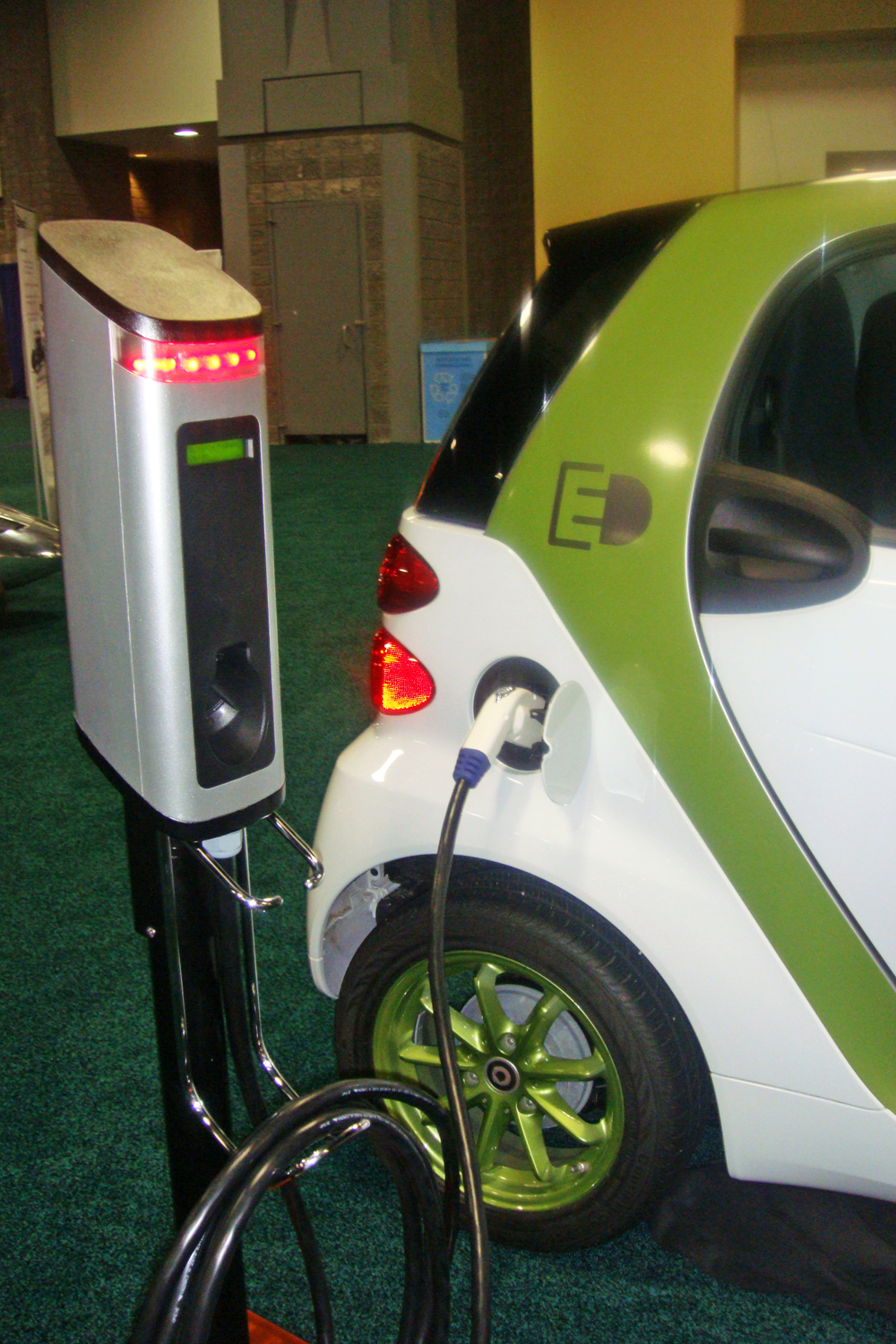 Smart ED electric car with charging station exhibited at the 2011 Washington Auto Show